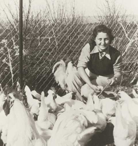 Parachutist heroine Hannah Szenes at the WIZO Nahalal Agricultural School, 1941.